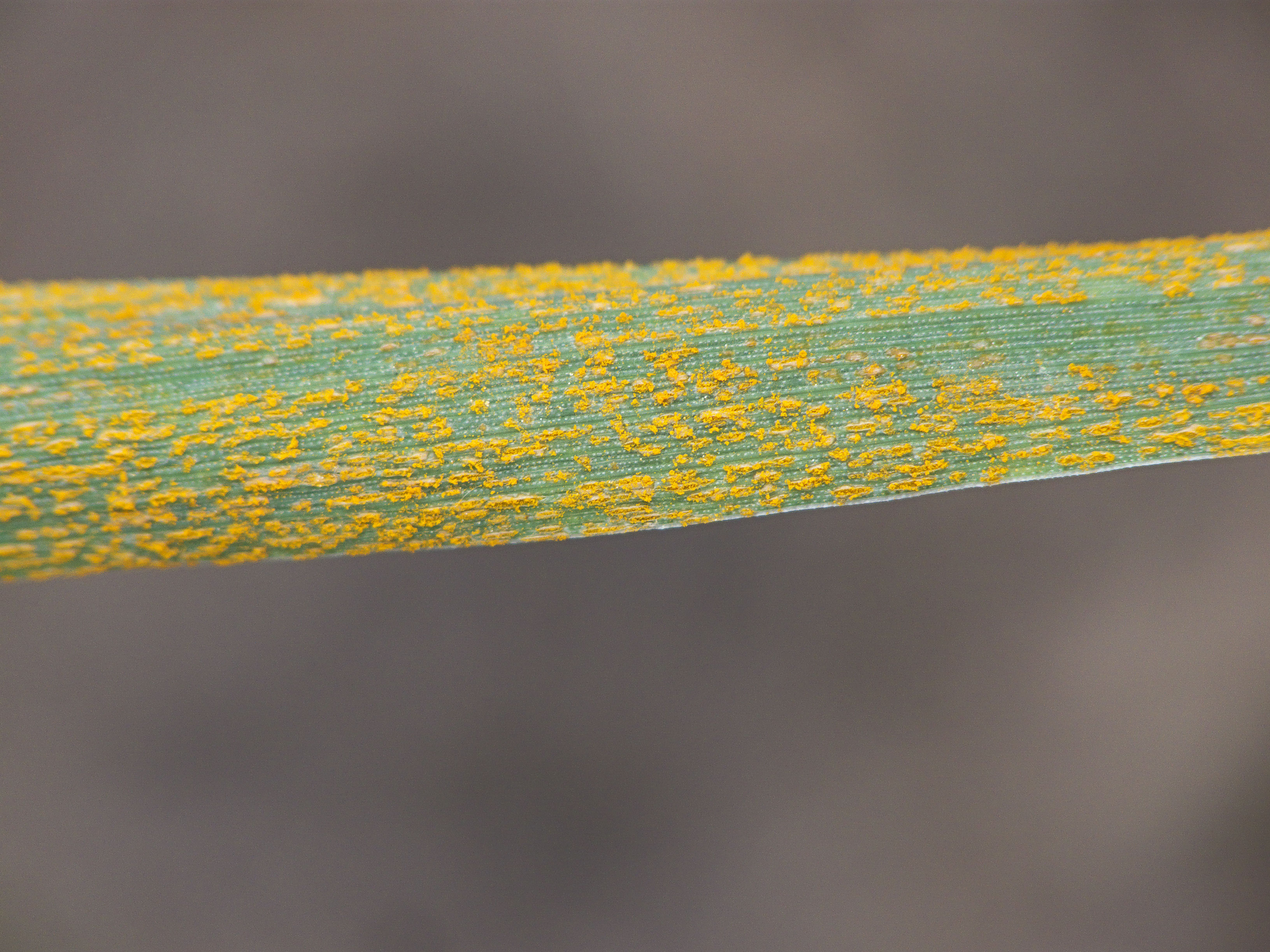 Puccinia striiformis f.sp. triticale on triticale